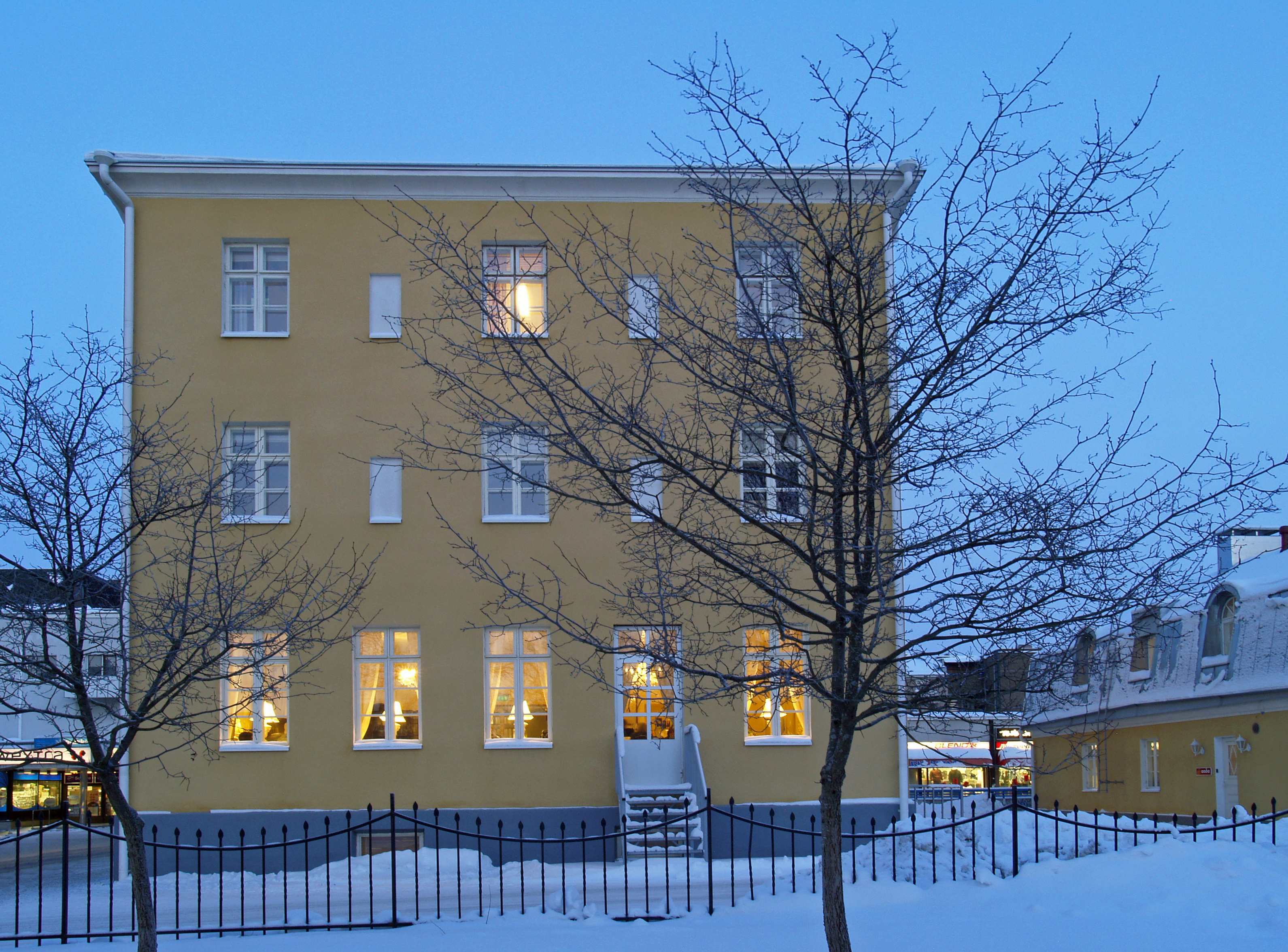 One of the oldest remaining buildings in Seinäjoki, Finland, former hotel Seurahuone on Keskuskatu, designed by Matti Visanti.